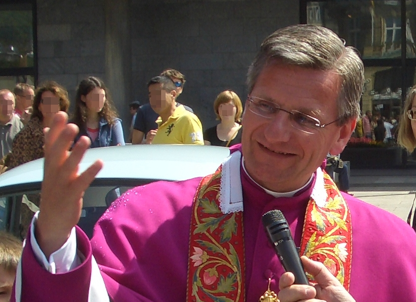 Dominikus Schwaderlapp (2010), Auxiliary bishop of the Roman Catholic Archdiocese of Cologne